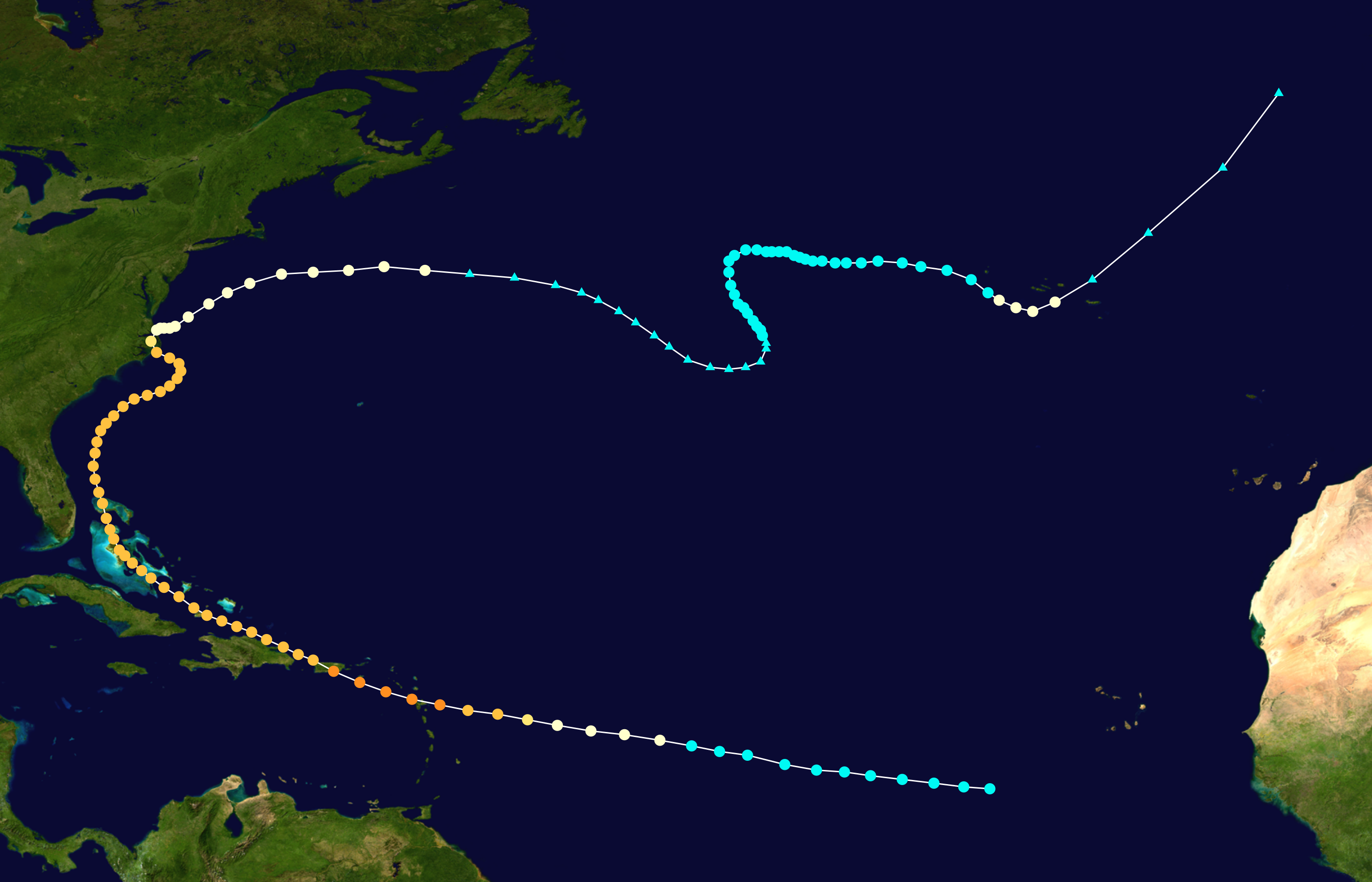 1899 San Ciriaco hurricane track. Uses the color scheme from the Saffir-Simpson Hurricane Scale.